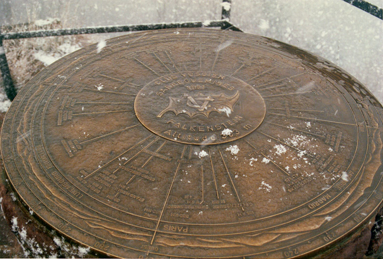 Marker at the Top of Ruinen Falkenstein placed by Club Vosigen, Strasbourg